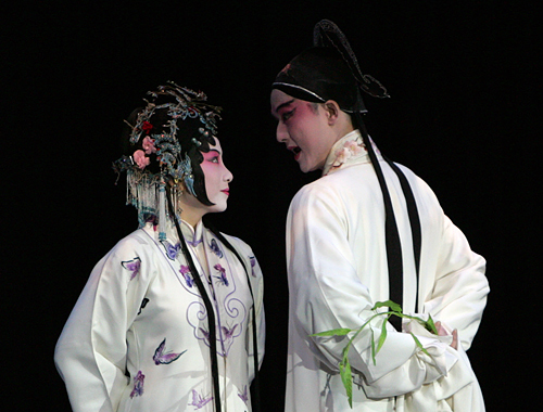 Kunqu performance at the Peking University